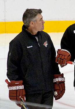 Phoenix Coyotes coach Dave Tippett during a team practice in September 2010.